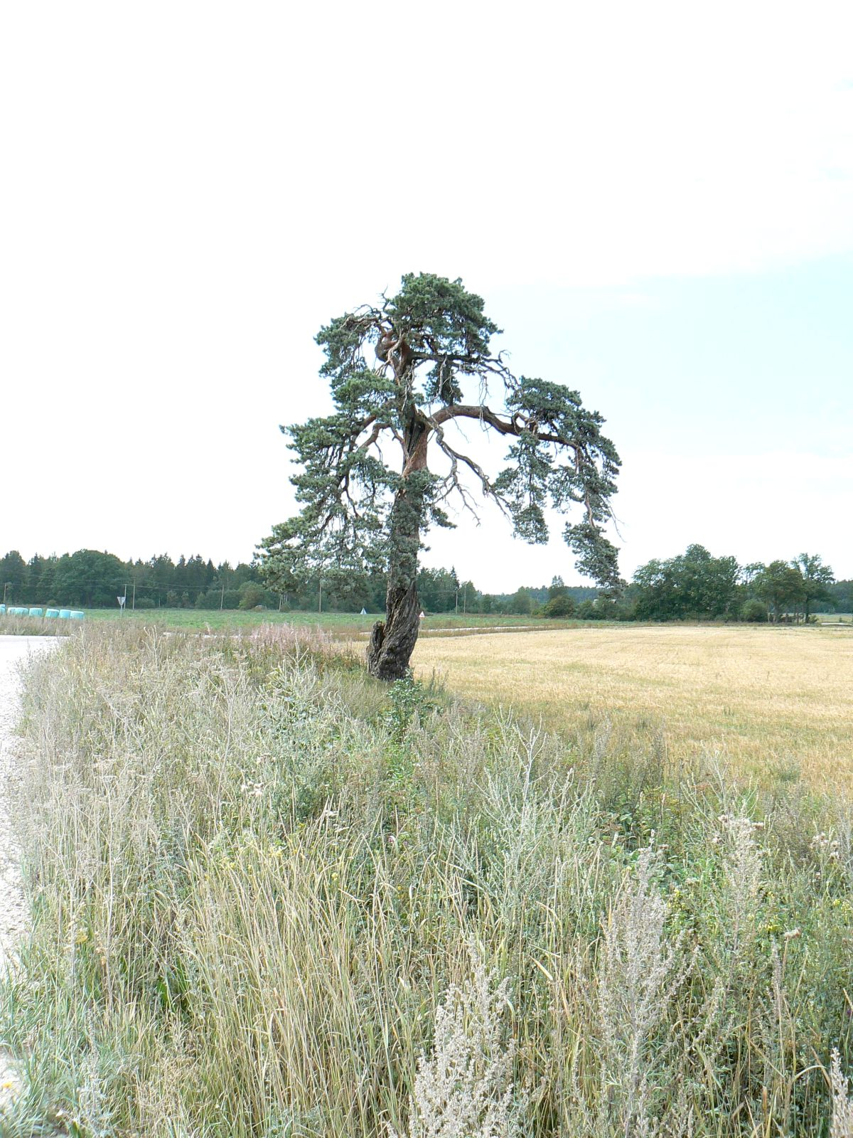 The Aude pine in Estonia